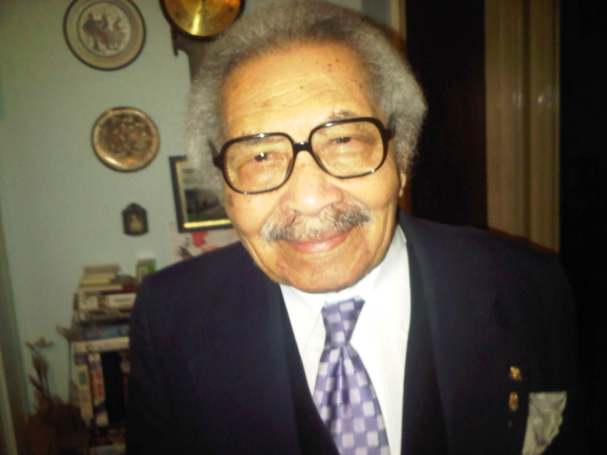 Ambassador John Banks Elliott. 9 February 2011